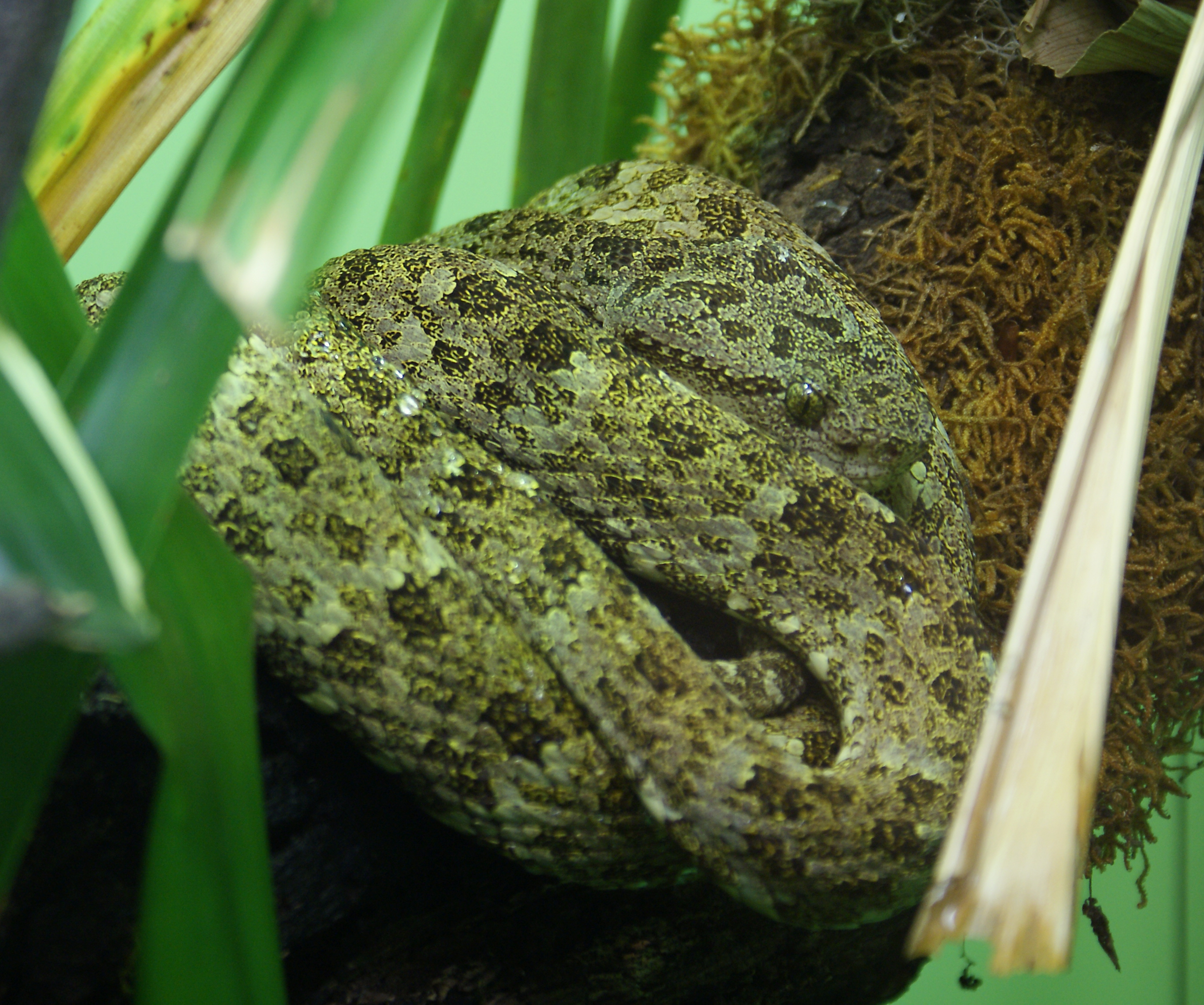 Speckled forest-pitviper (Bothriopsis taeniata)